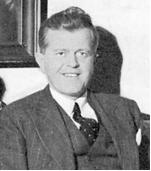 Knut Kavli